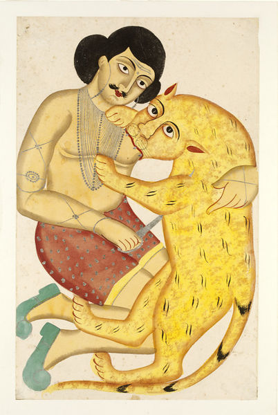 A Kalighat Painting, watercolour on paper, shows a wrestler, supposed to be Shyamakanta Banerjee (1858-1918), wresting with a tiger to demonstrate his supreme power.